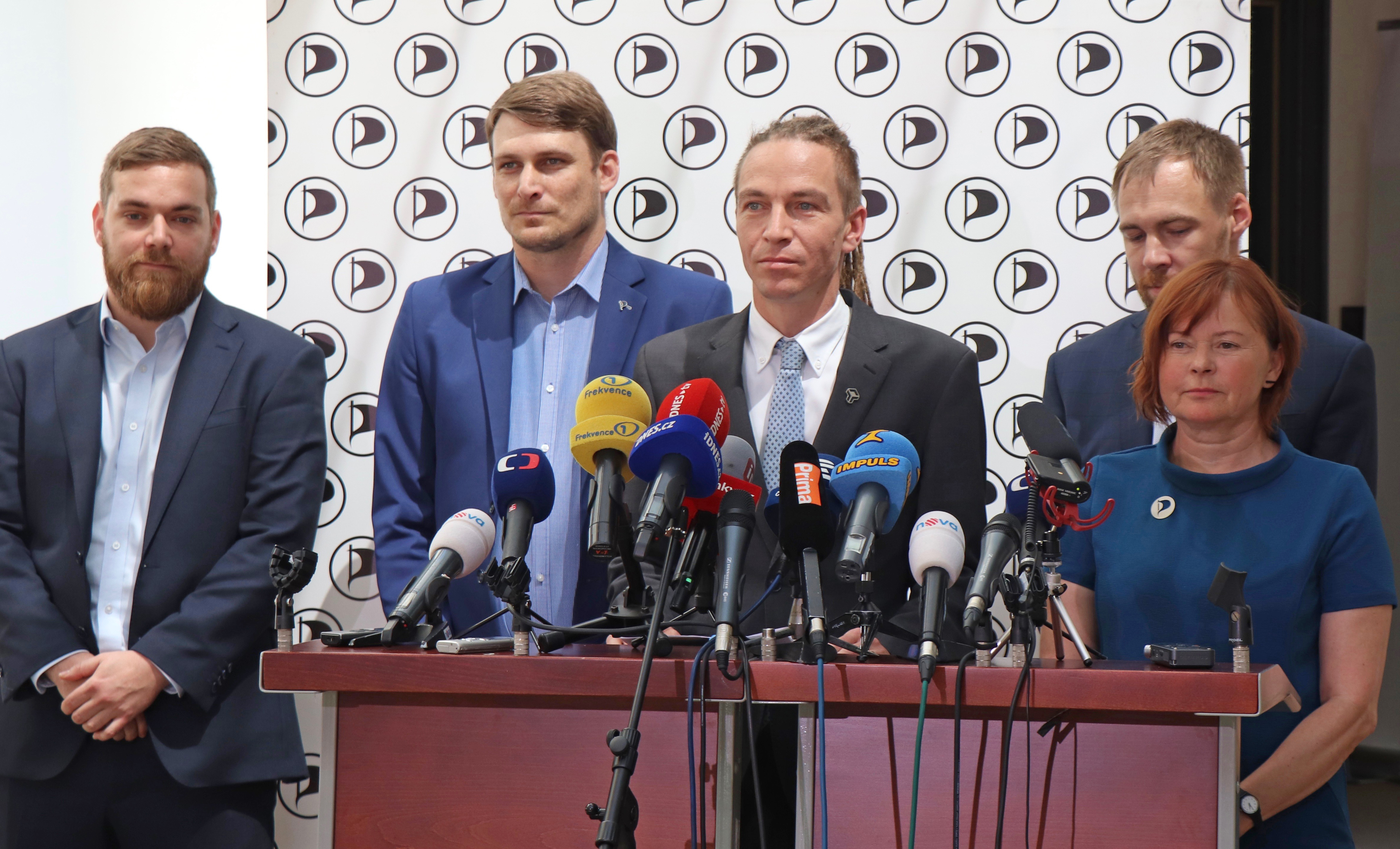 Czech Pirate Party press conference on 4 June 2019; party members and members of the Chamber of Deputies of the Parliament of the Czech Republic, left to right: Tomáš Vymazal, Lukáš Kolářík, Ivan Bartoš, Petr Třešňák, Dana Balcarová